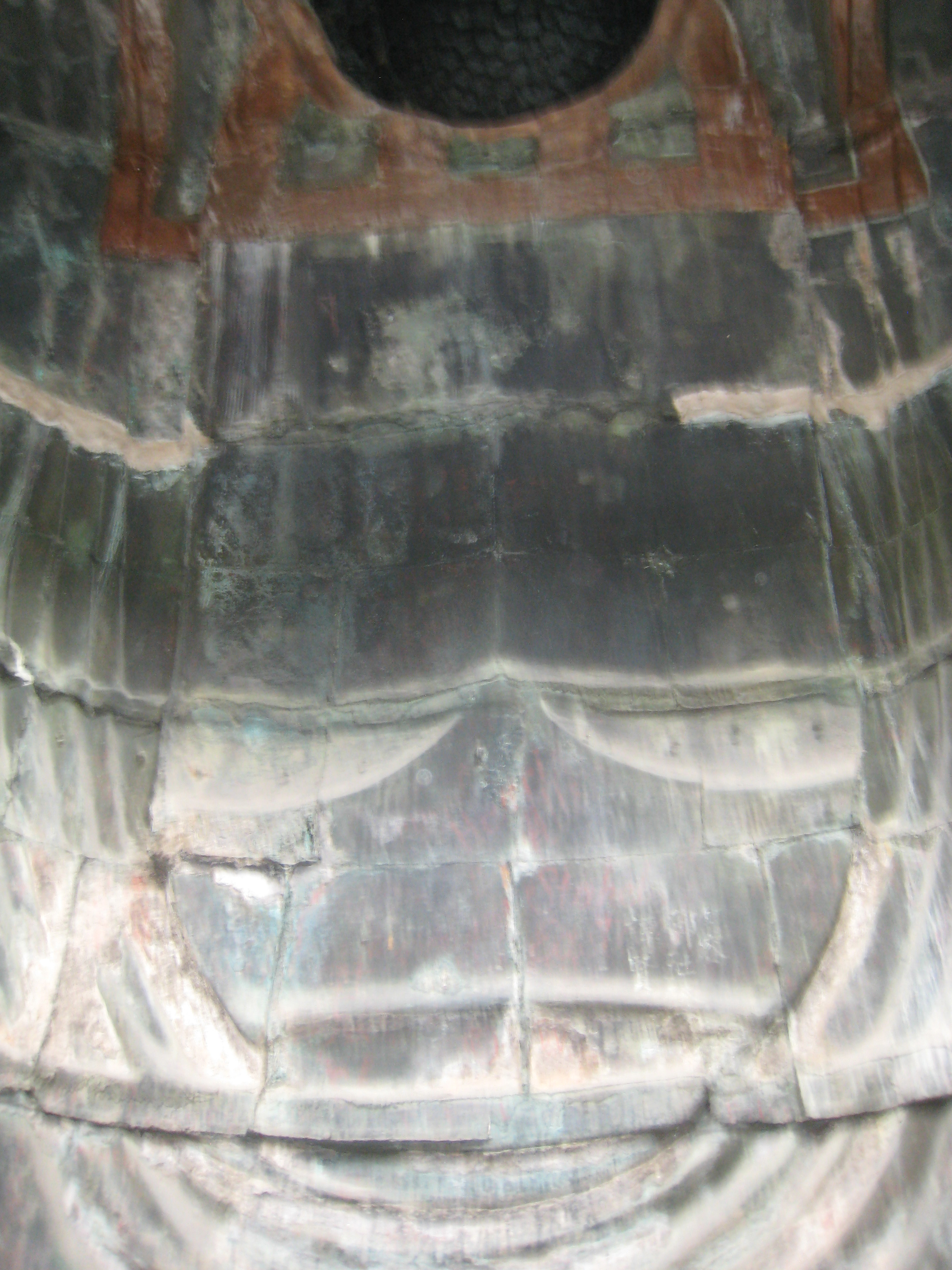 Inside view of the Great Buddha of Kamakura